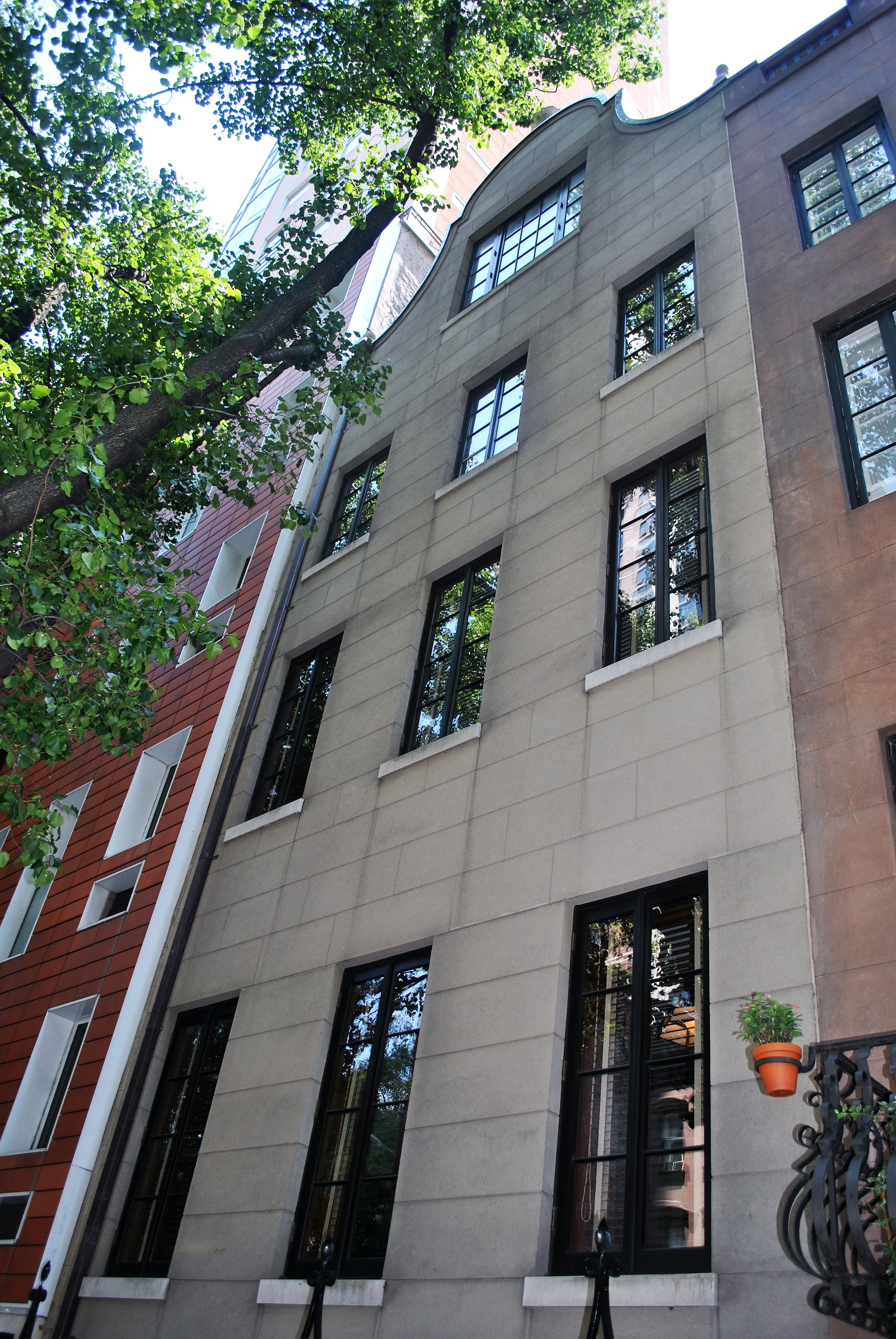 Image originally published in Queer Places: Retracing the Steps of LGBTQ people around the World Authored by Elisa Rolle